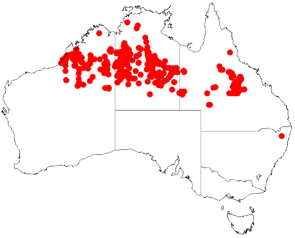 Acacia stipuligera Occurrence data from Australasia Virtual Herbarium downloaded from on 8 December 2018